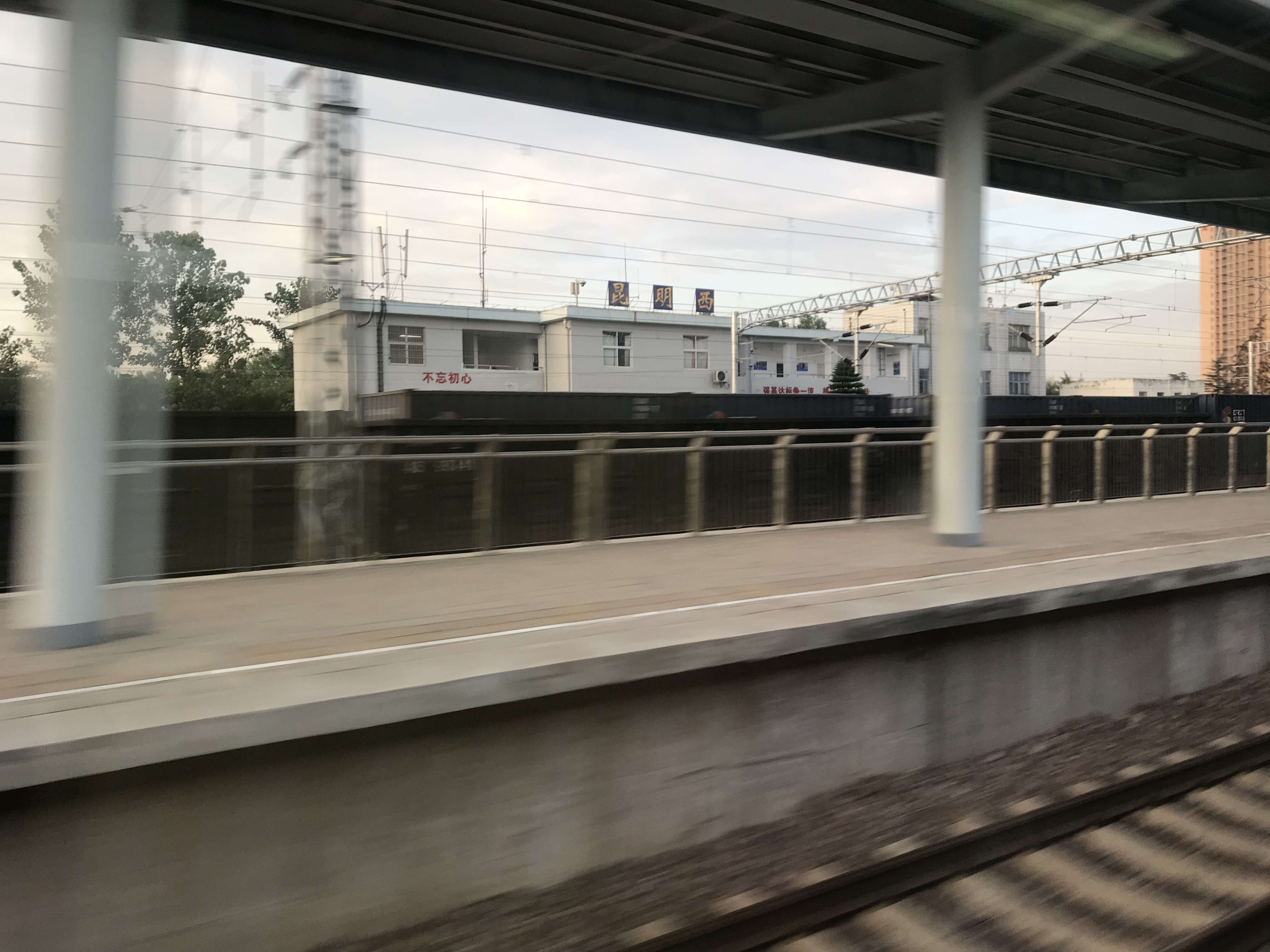 Seen through a passenger platform.